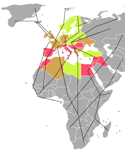 A schematic showing the migration routes of birds in Africa and Europe aswell as the countries that are reported to have high numbers of offenders of the law in regards to the killing of birds. The map was made based on a map in National Geographic Magazine, July 2013. countries marked in red have high numbers of offenders countries marked in brown have moderate numbers of offenders countries marked in green have low numbers of offenders countries marked in grey have an unknown numbers of offenders